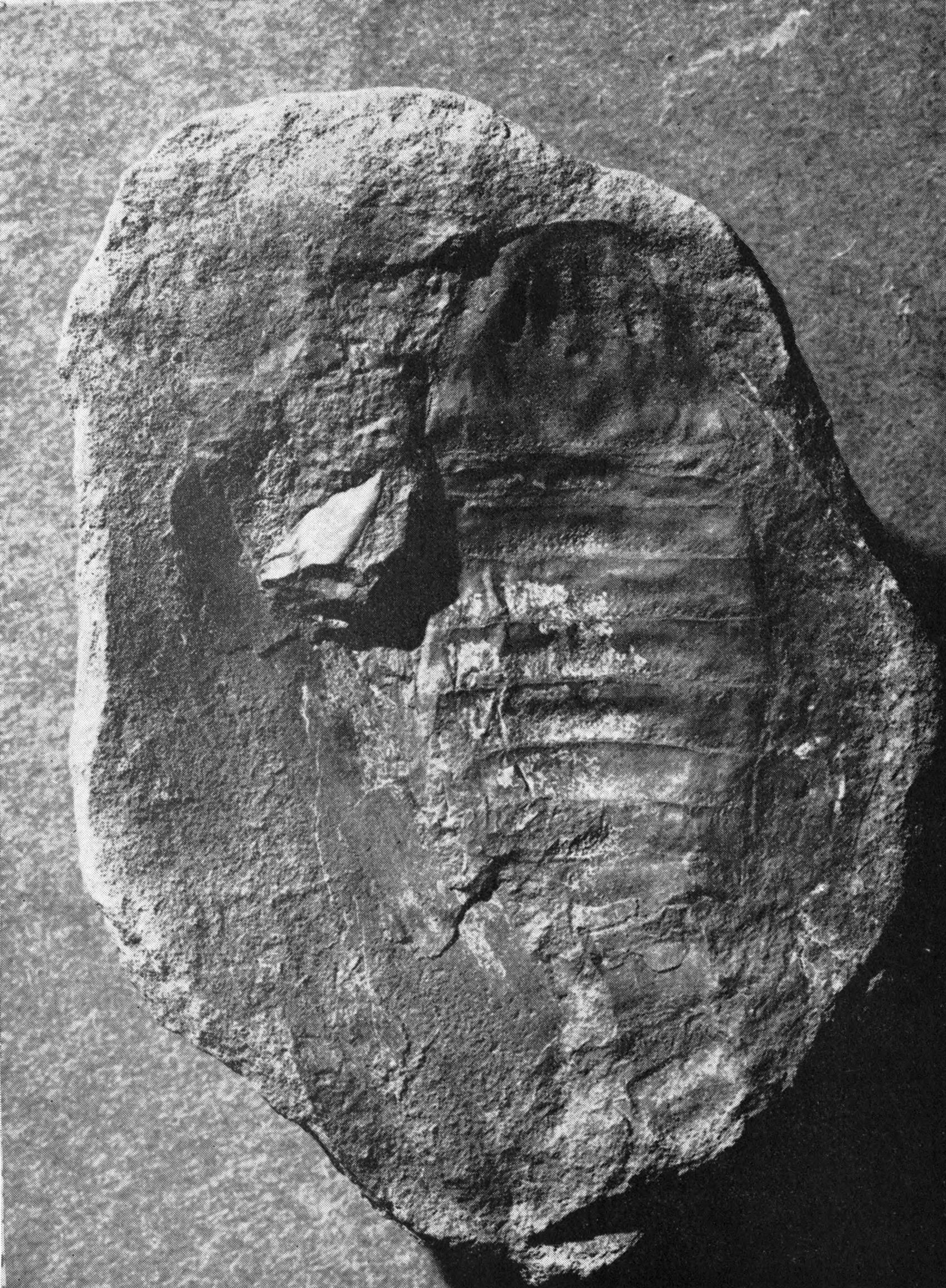 A particularly well-preserved and only partly compressed specimen of Adelophthalmus mazonensis (Meek and Worthen) from the Herdina collection (H-3); × 1.8. The ocellar mound and the short genal spines of the carapace are particularly well preserved.